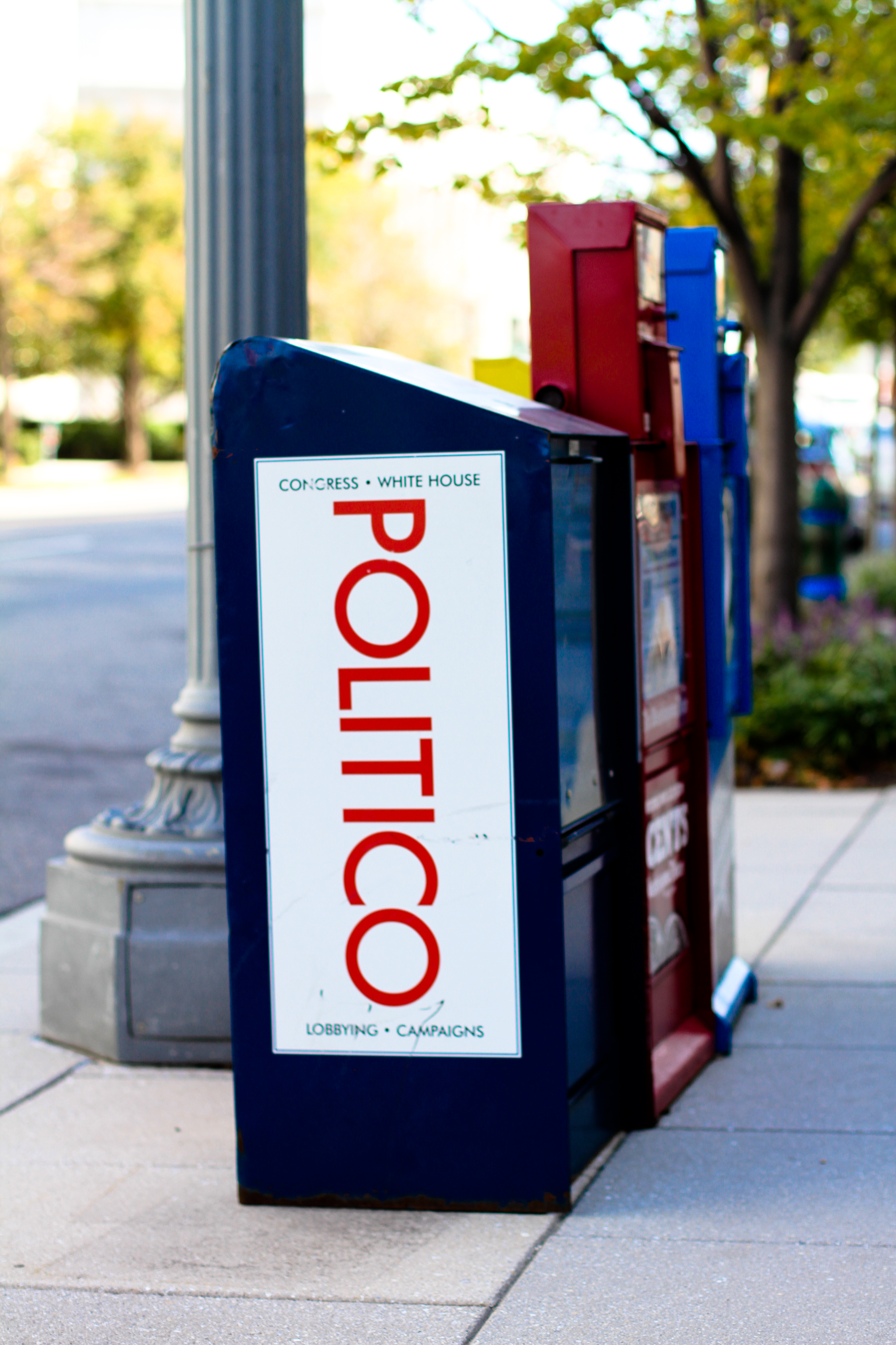 Newspaper boxes, Washington DC